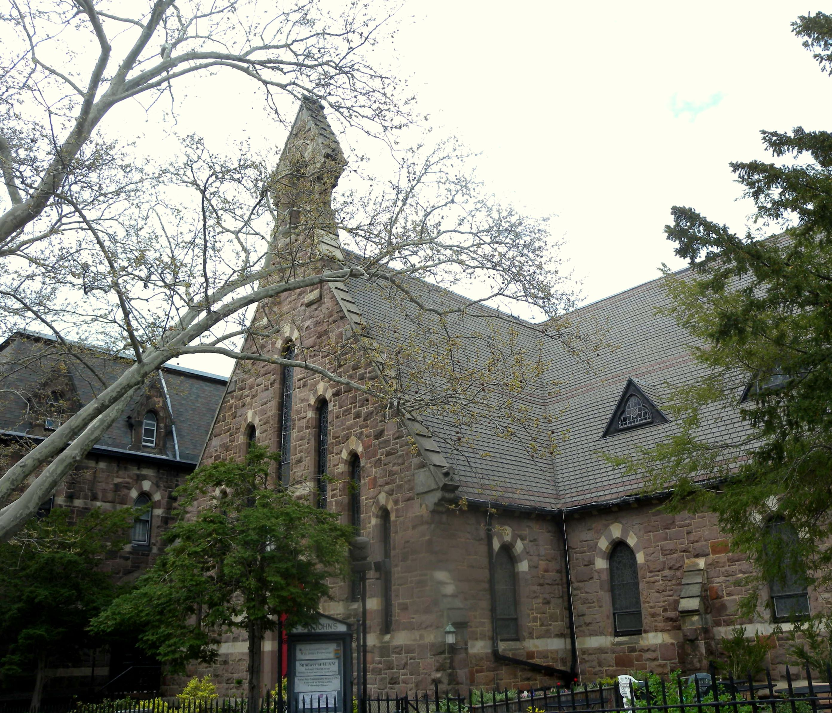 Looking north from St John's Pl, at St John's Church on a cloudy midday.